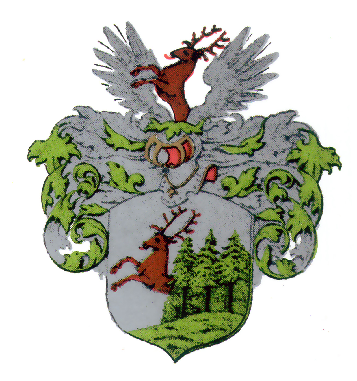 coat of arms